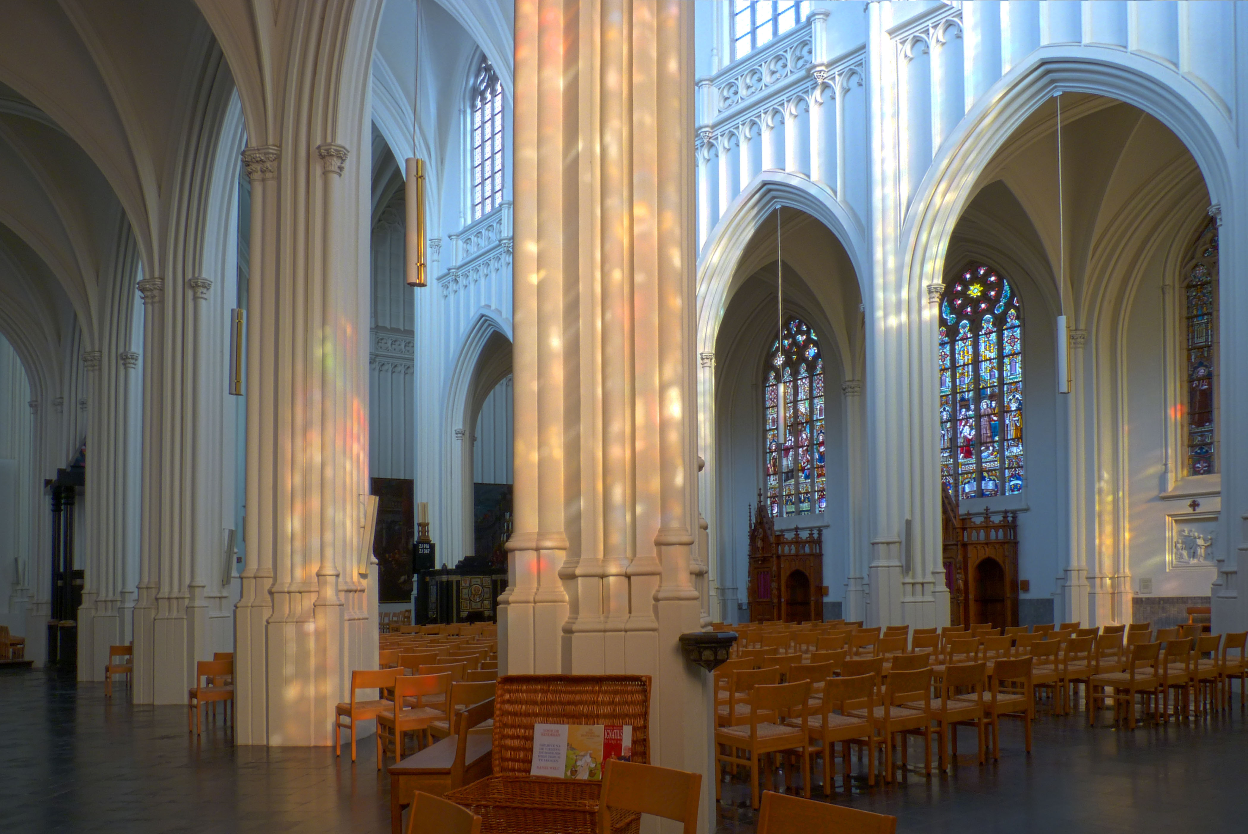 Interior of the church of the Abbey of Tongerlo (Belgium).